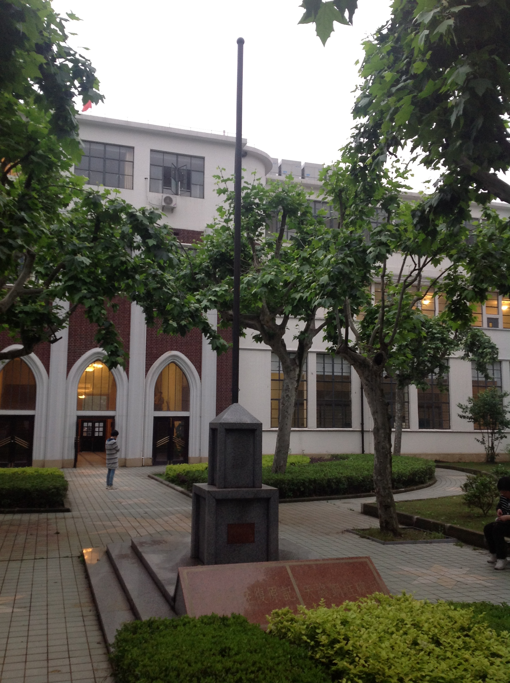 Marconi antenna in SJTU.